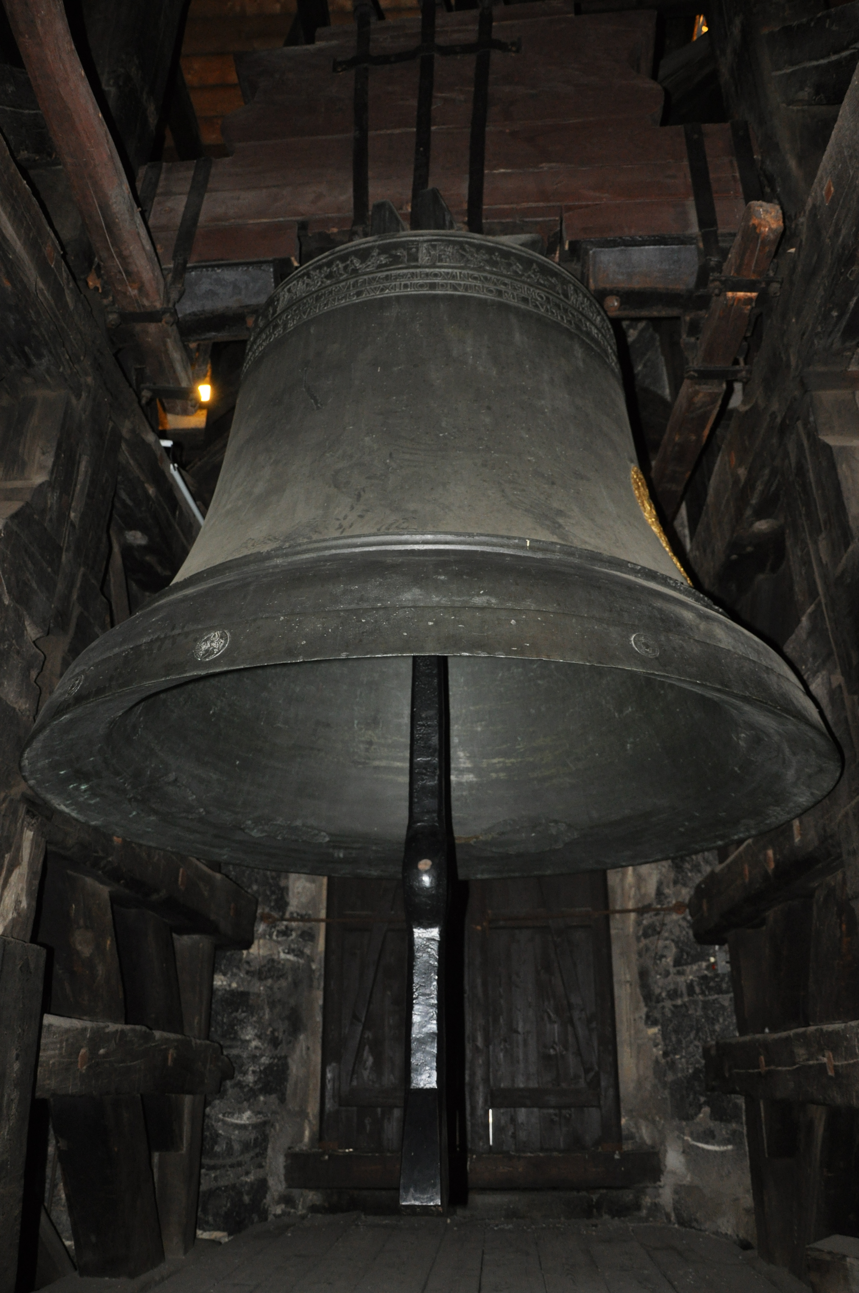 Interior of Church of Our Lady in front of Týn, Prague. The bell called Marie, Church of Our Lady in front of Týn, Prague.